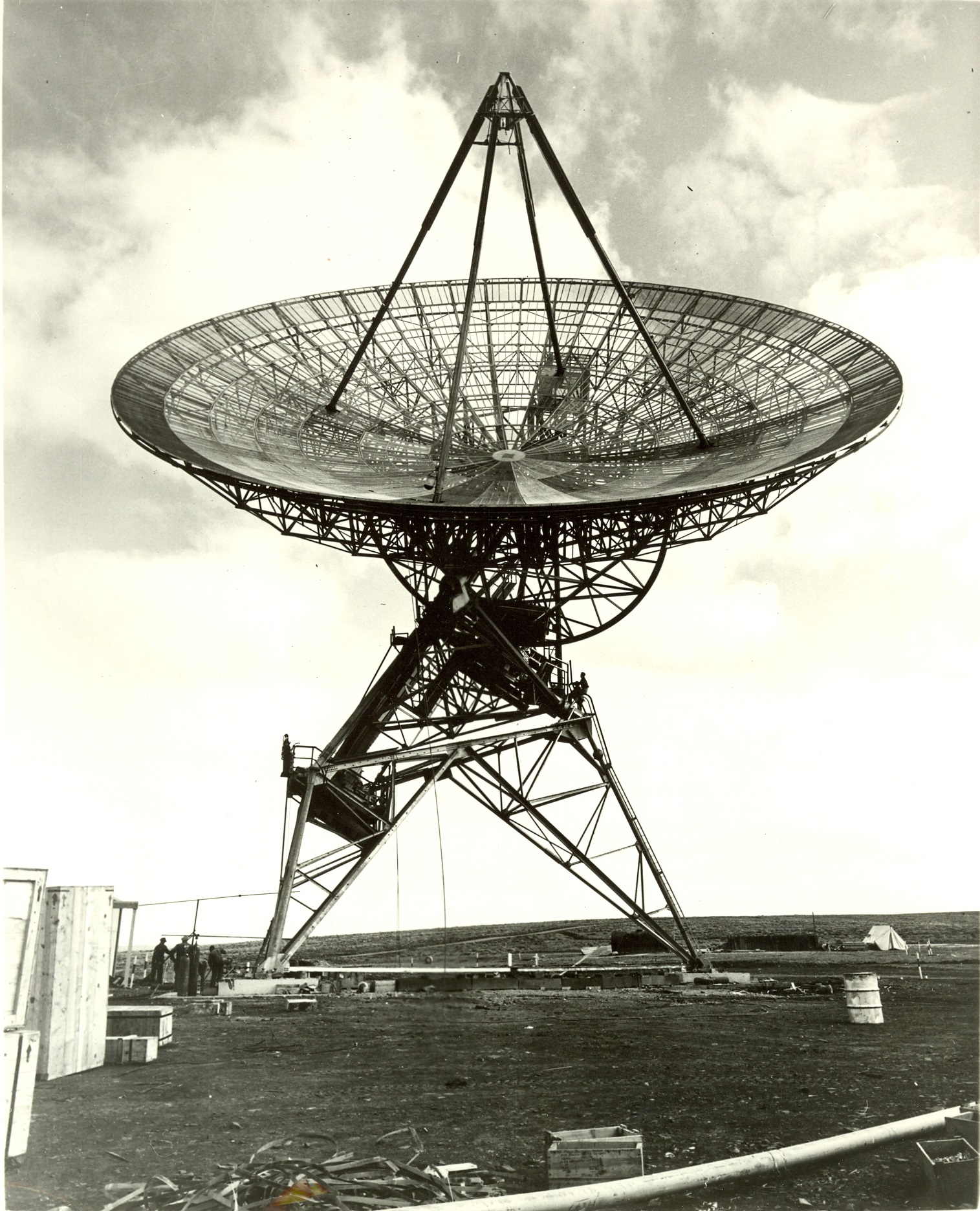 As part of the plan to develop three Deep Space Stations equidistant around the world, the United States collaborated with Australia to construct the 26 meter (85 foot) antenna in Woomera (Island Lagoon). Woomera was chosen as the best location for Deep Space Station 41 (DSS-41) because it was about 120 degrees west of Goldstone, California where another Deep Space Station was located. Australia had collaborated with the British government since 1957 to research missiles, rockets, and satellites, proving themselves an ideal partner for NASA. DSS-41 supported Ranger and early Mariner missions, as well as communicating with Goldstone by bouncing its signal off of the moon before ceasing operations in 1972.